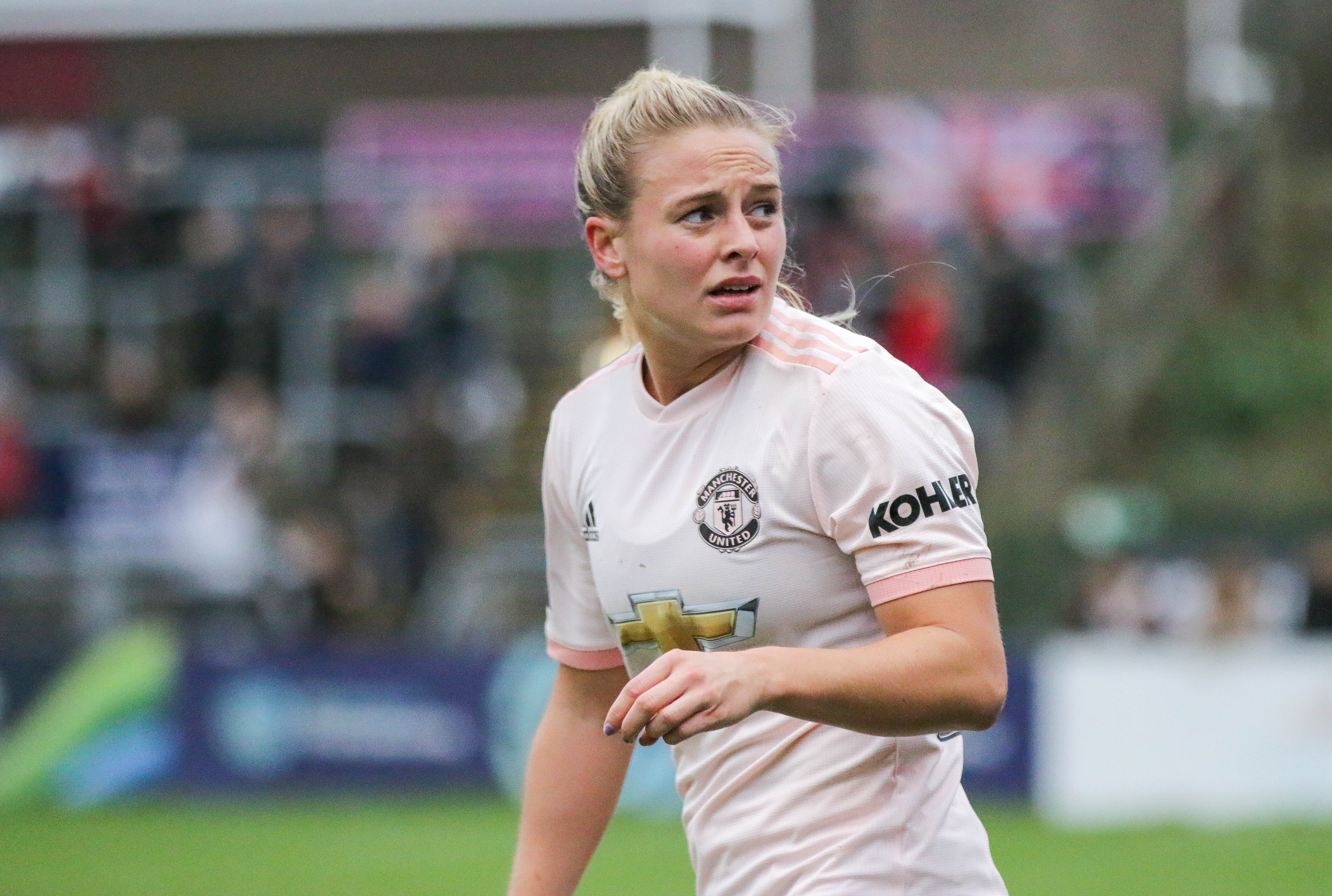 Kirsty Smith